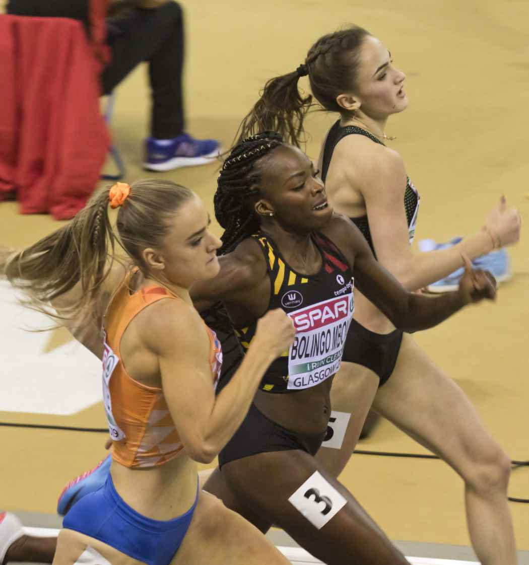 EKI10414EKI10440 halve finale 400m bolingo de witte miller